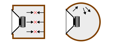 Verlauf der Schallwellen in rechteckigen und runden Lautsprechergehäuse